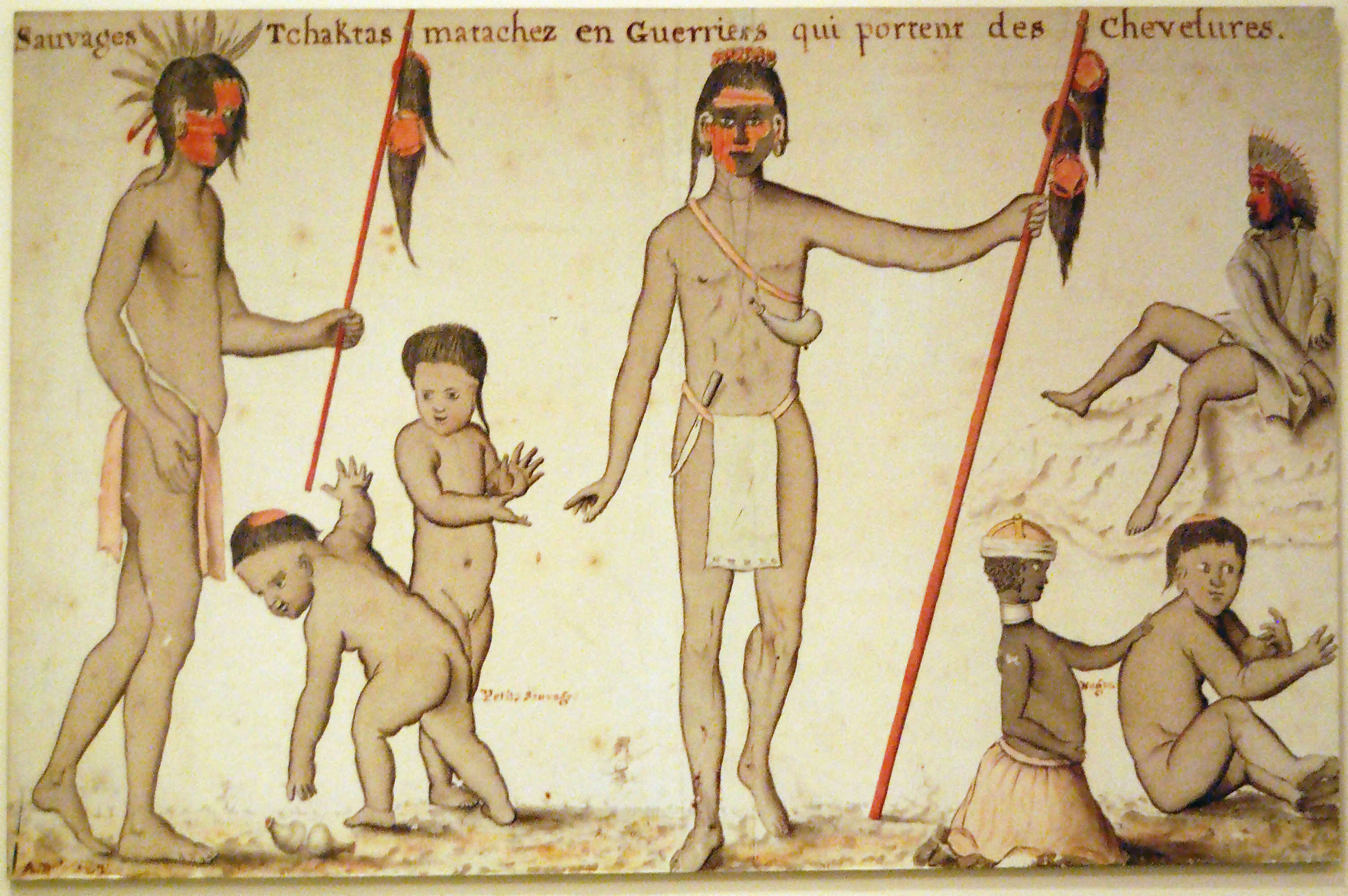 "Sauvages Tchaktas matachez en Guerriers qui portent des Chevelures" Tchaktas savages in warpaint bearing scalps